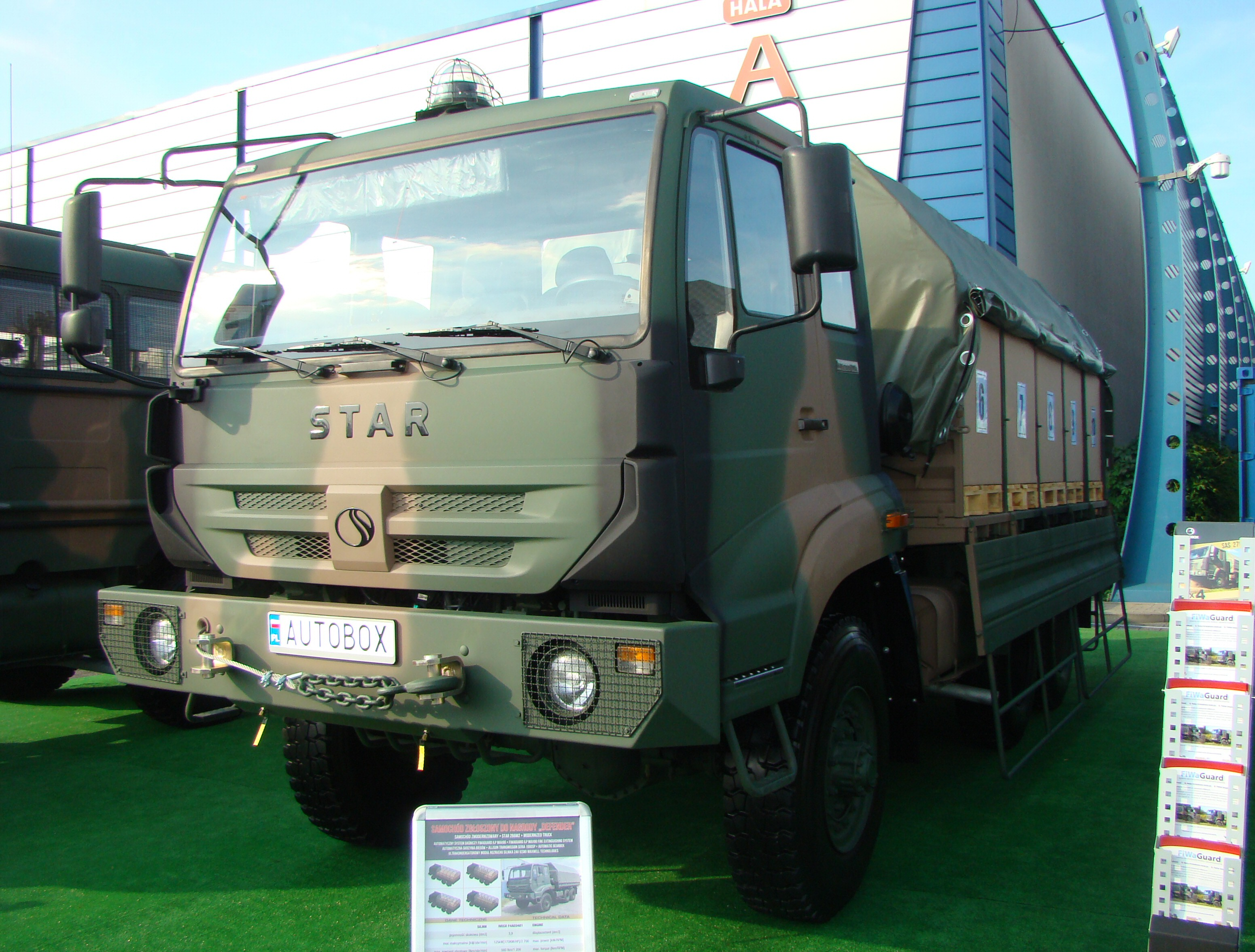 Star 266M2 truck modernized by Autobox.